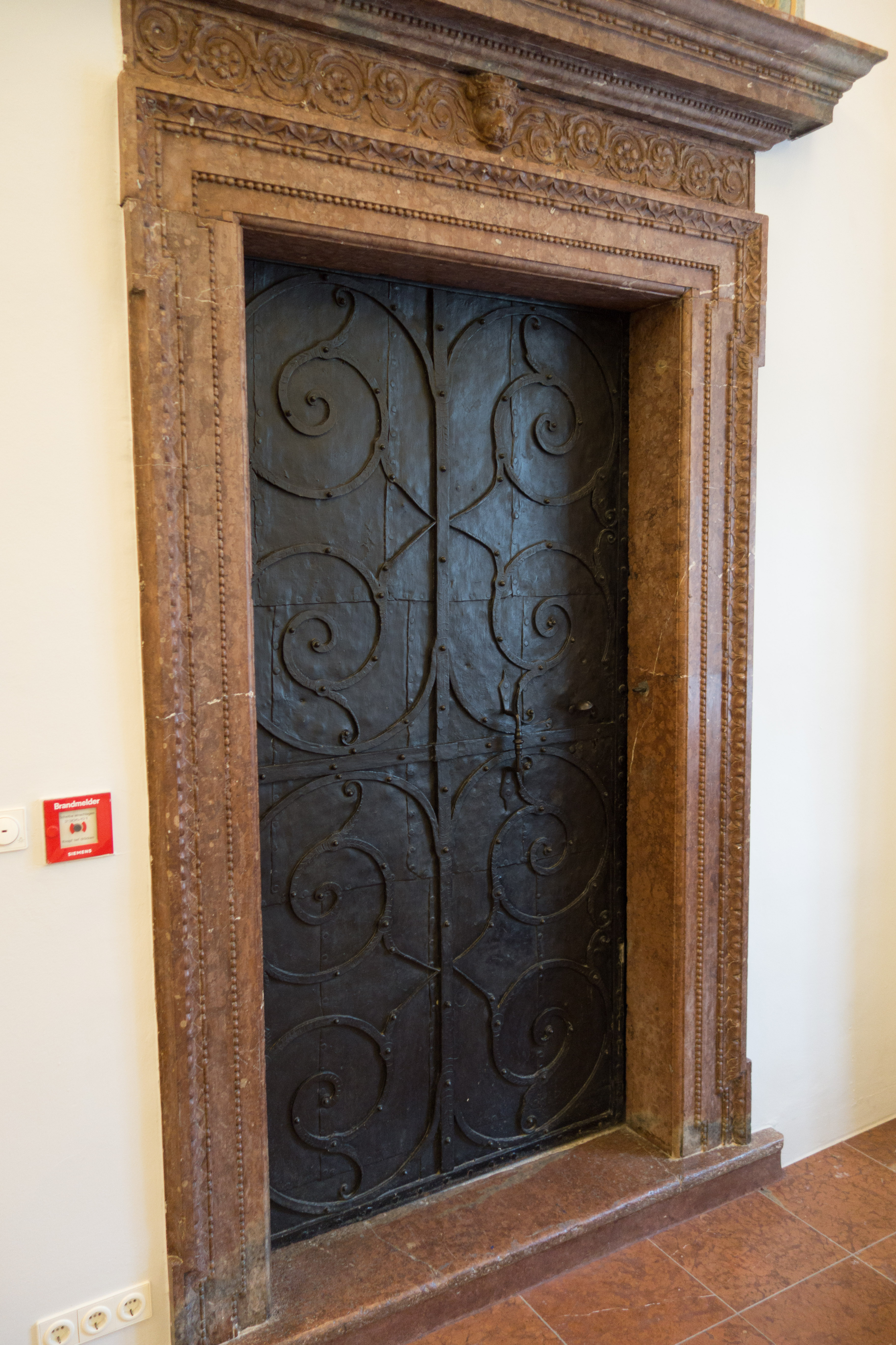 Austria